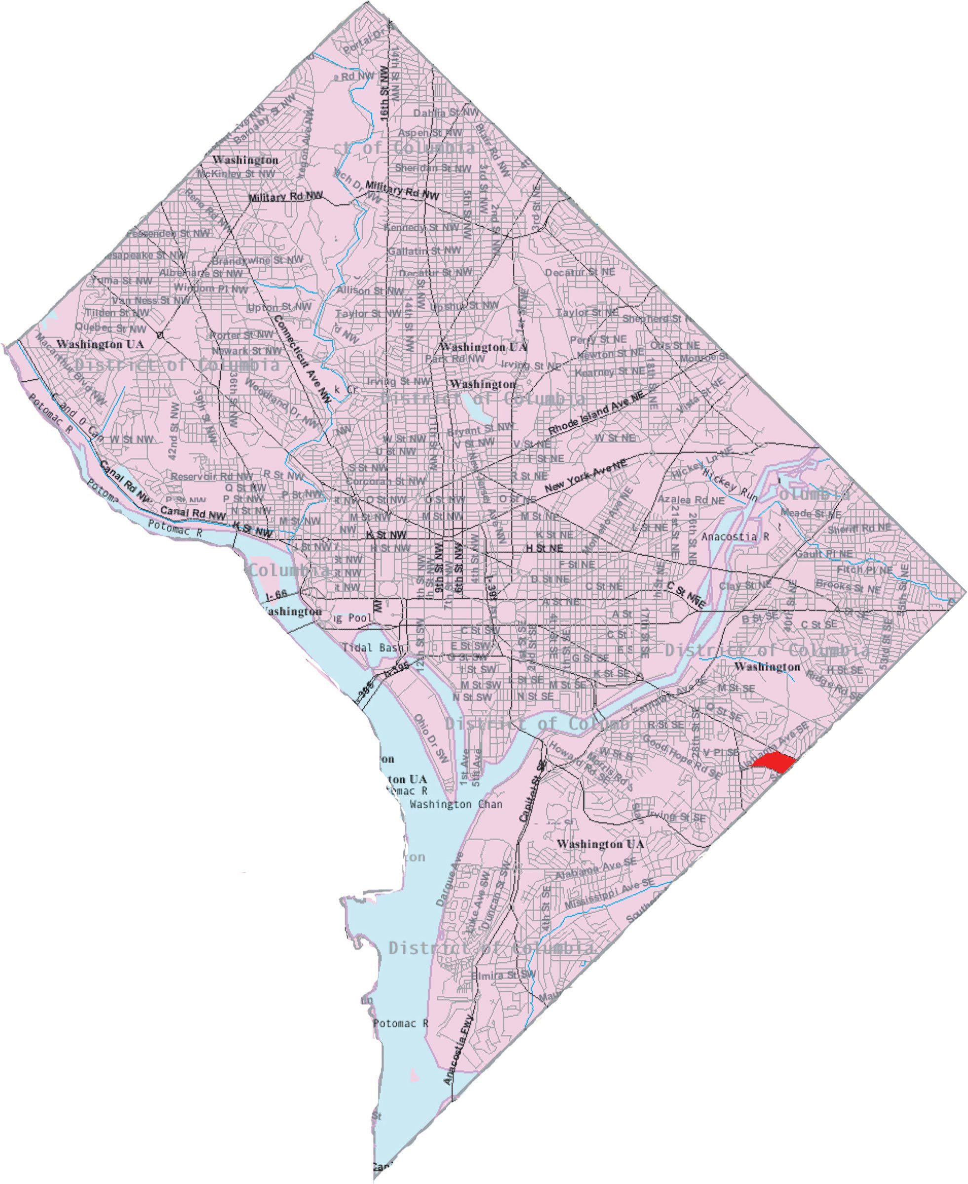 This image is a modified version of a self-generated reference map from the U.S. Census Bureau's American Factfinder at by Wikipedia user Msclguru.